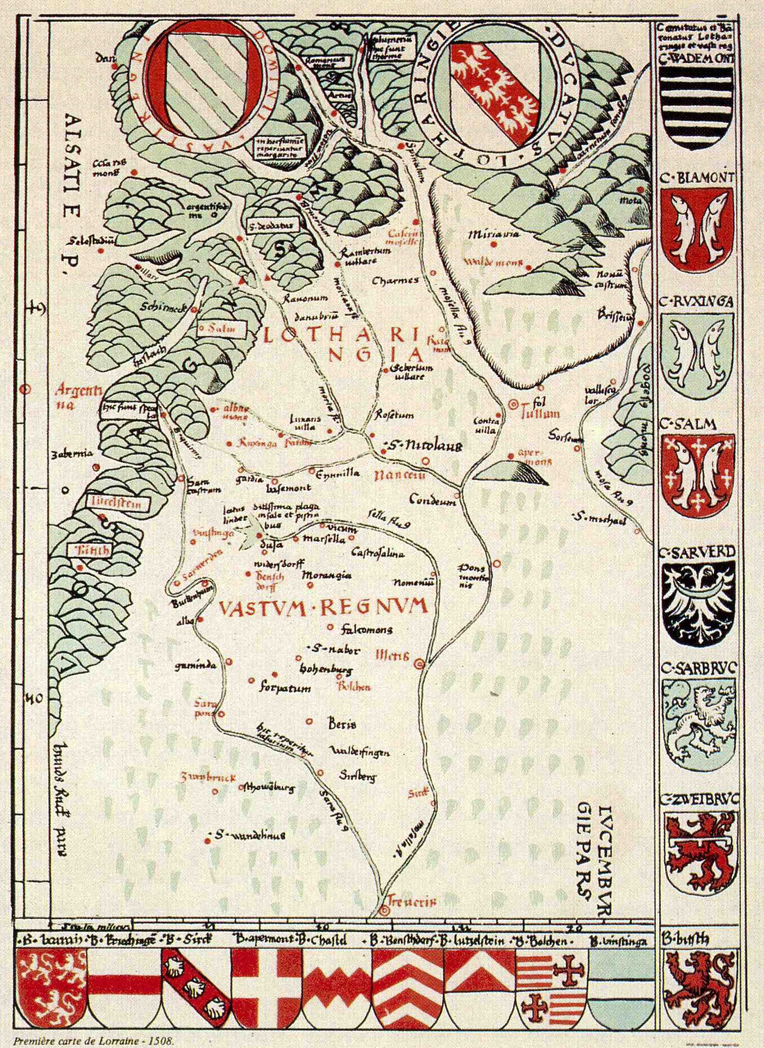 First known map of Lorraine (North is at bottom)